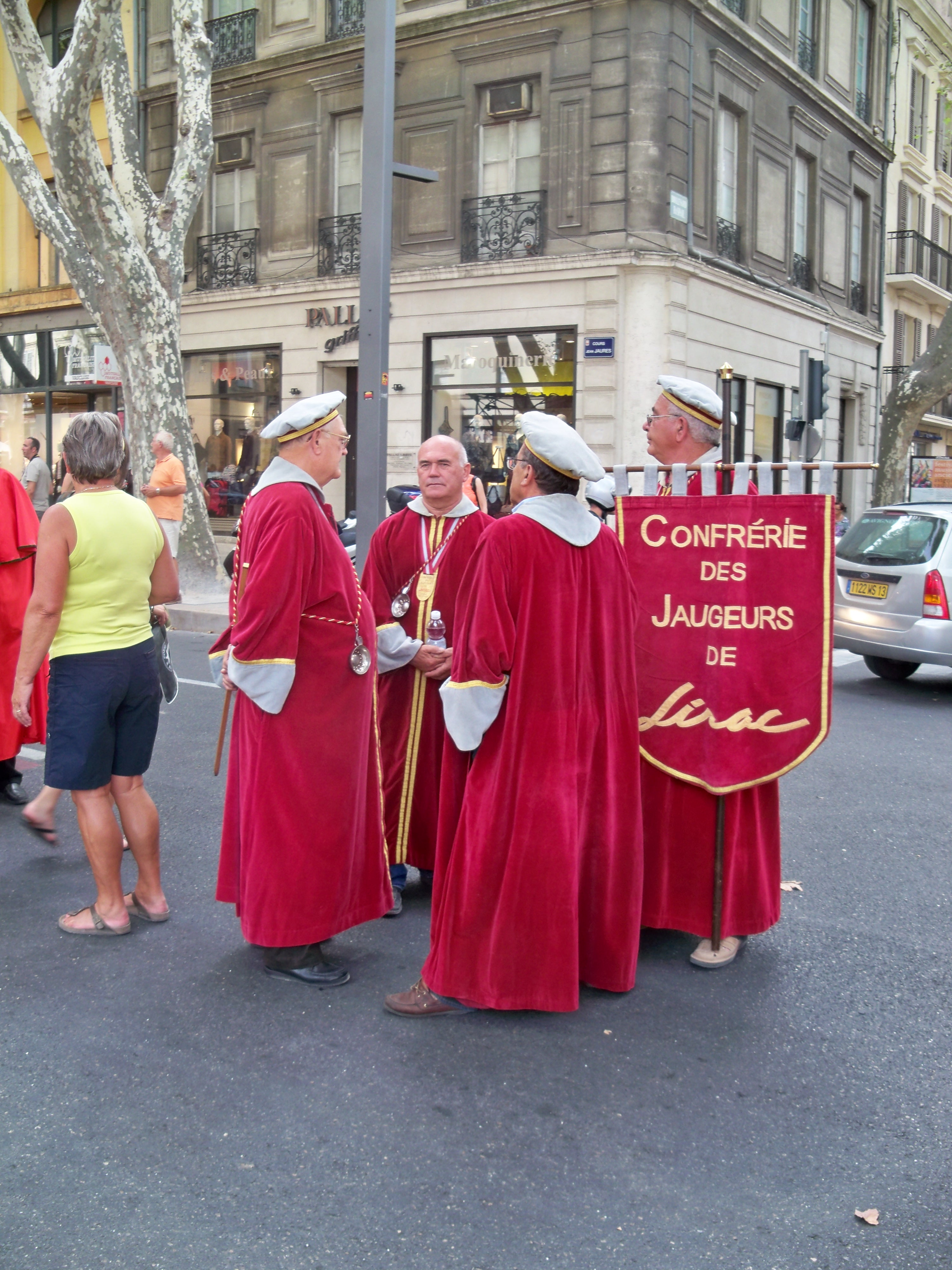 Banner of the Brotherhood of the Gauges of Lirac (Gard, France)